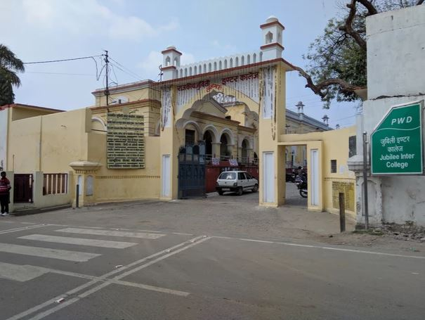 The Main gate of Govt. Jubilee Inter College, Lucknow